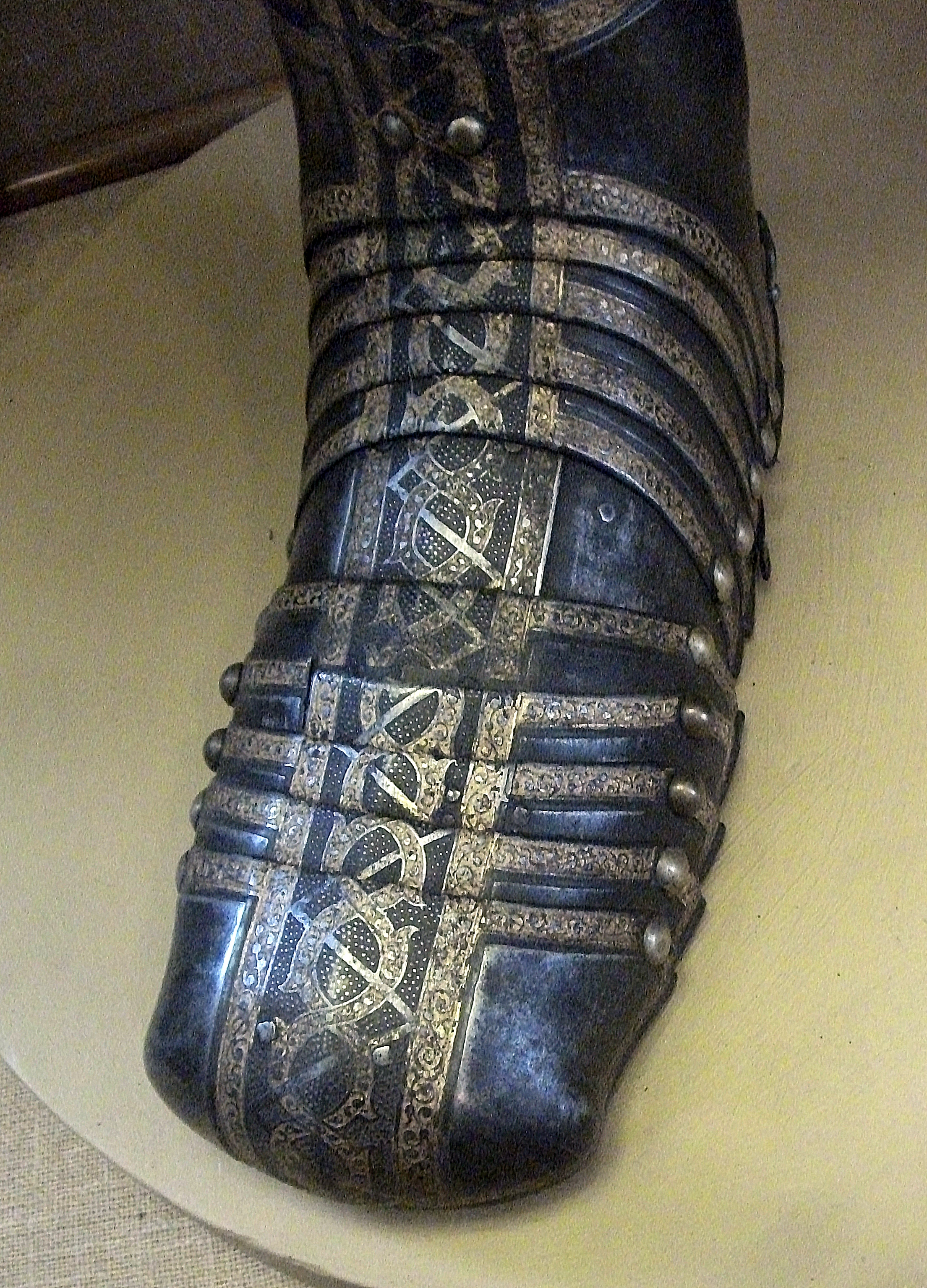 Wallace Collection Native nameWallace CollectionLocationLondonCoordinates51° 31′ 03″ N, 0° 09′ 11″ W Established1897Website control VIAF: 130815091 ULAN: 500302044 LCCN: n50034920 BNF: 12124266g WorldCat Full Armour Armour of Sir Thomas Sackville, Lord Buckhurst Royal Workshop, Greenwich Jacob Halder (died 1608) Greenwich, England c. 1587 - 1589 Steel, leather, gold and copper alloy Weight: 32.03 kg Weight: 36.7 kg, with the plackart A62